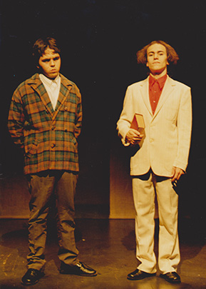 Breno Fonseca e Gustavo Burla em "Zé das Cova e Dona Morte", de 2003.